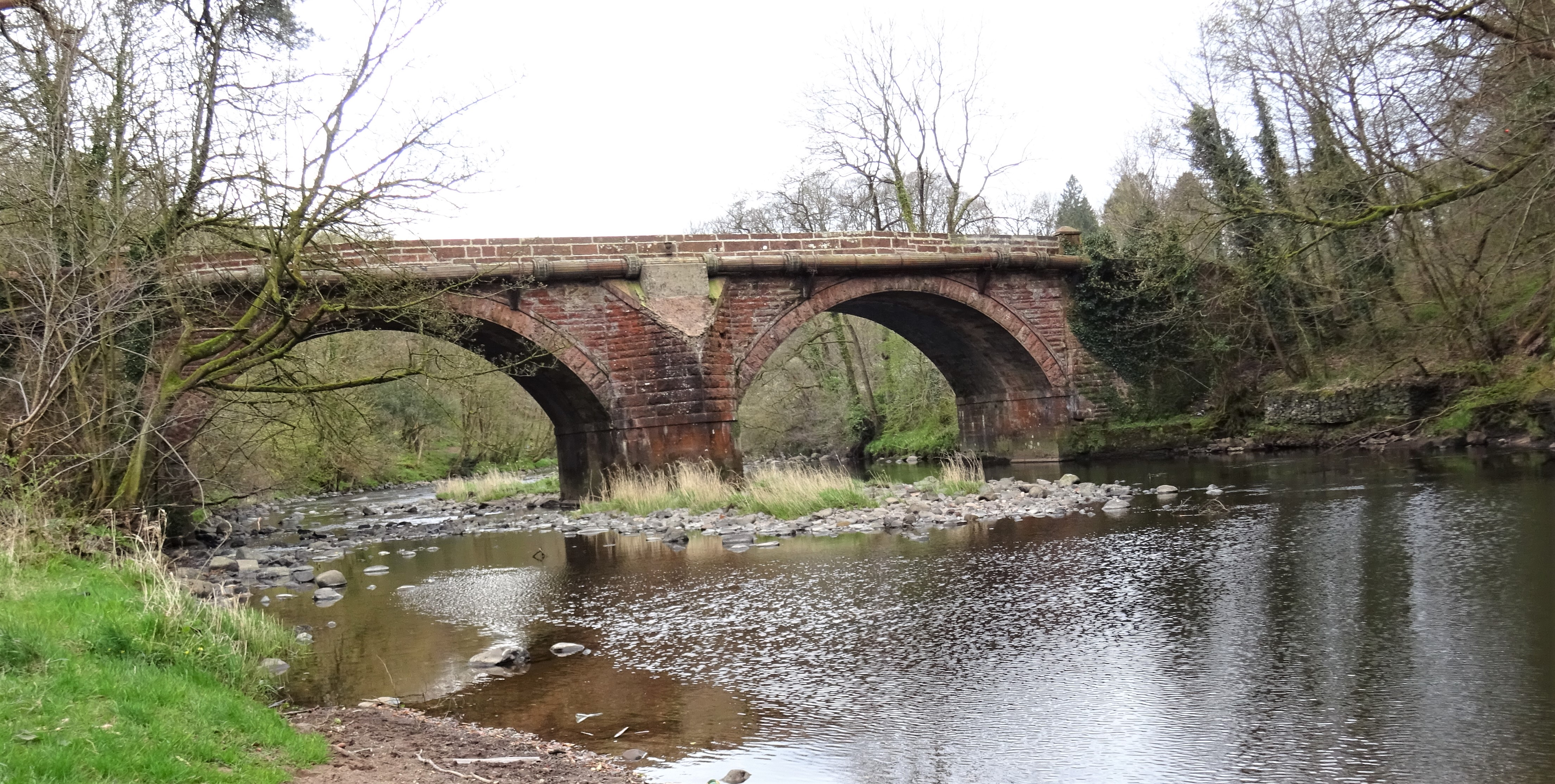 The old Howford Bridge, River Ayr. Upstream view. James Armour was a contractor on this site. River Ayr Way crosses it, but no motorised vehicles.